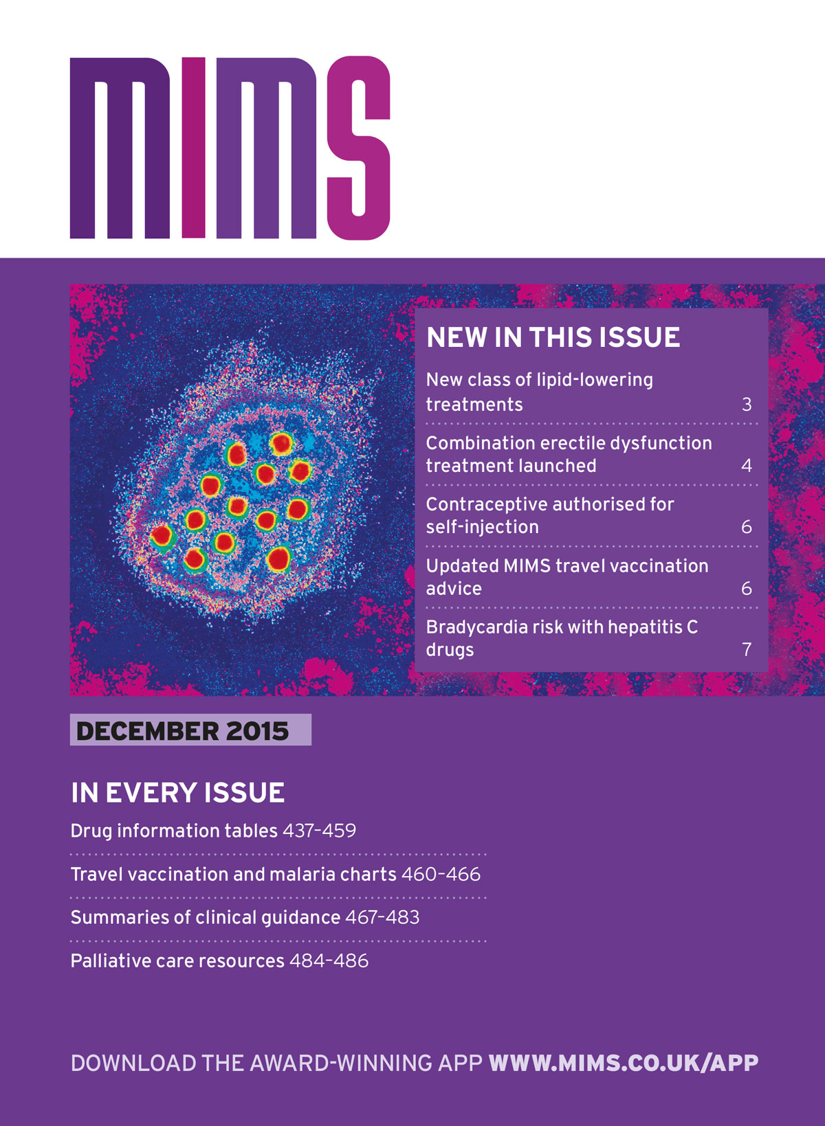 MIMS December 2015 cover